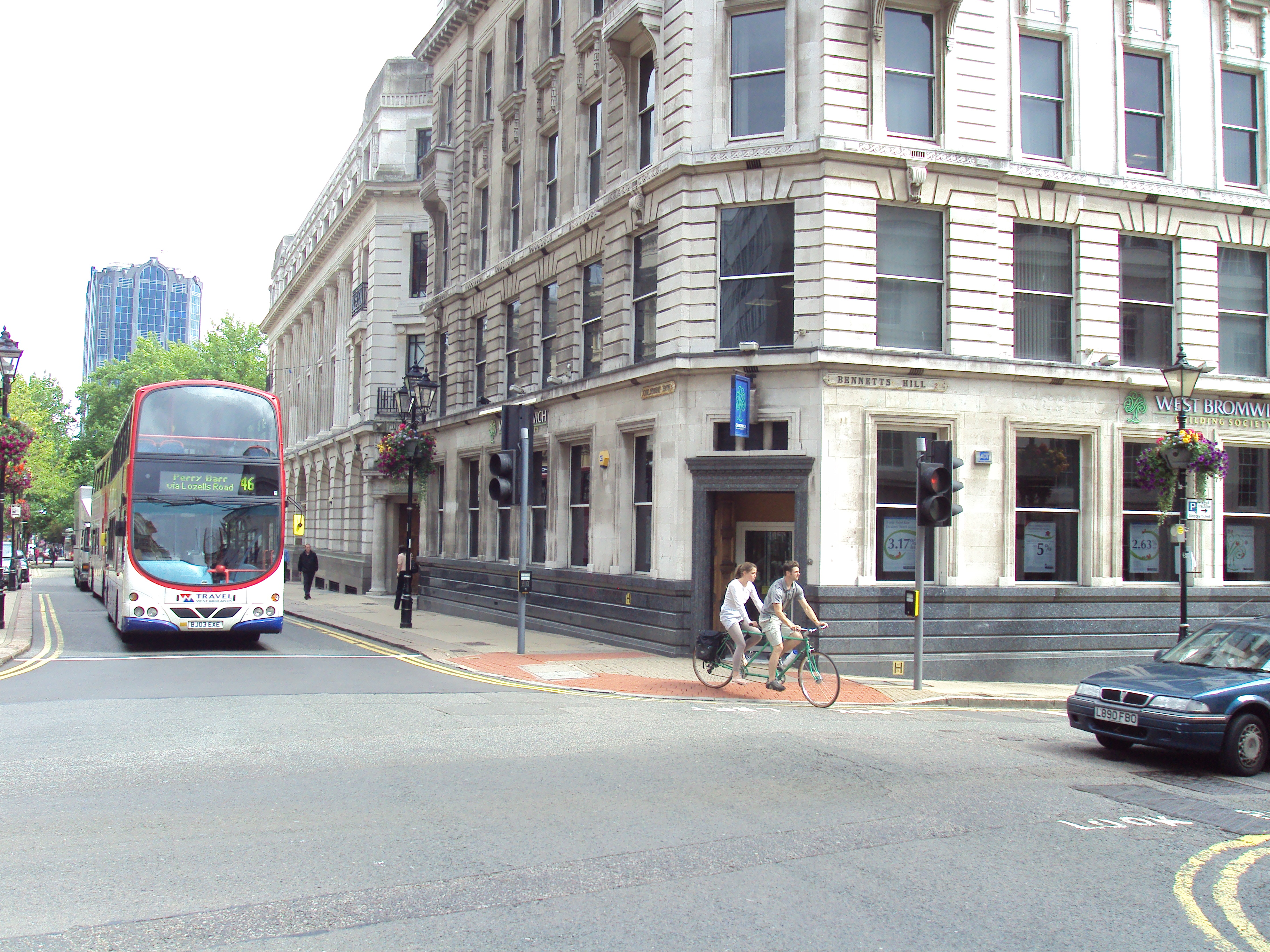 Junction of Colmore Row and Bennetts Hill, Birmingham, England.